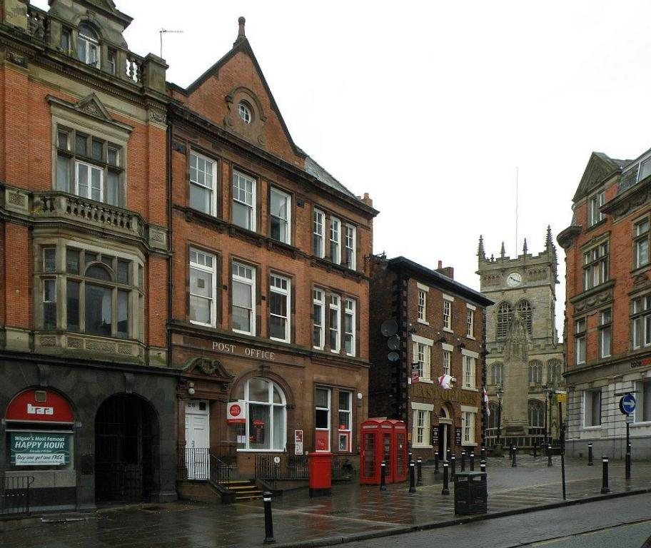 Post Office in Wallgate, Wigan, Greater Manchester